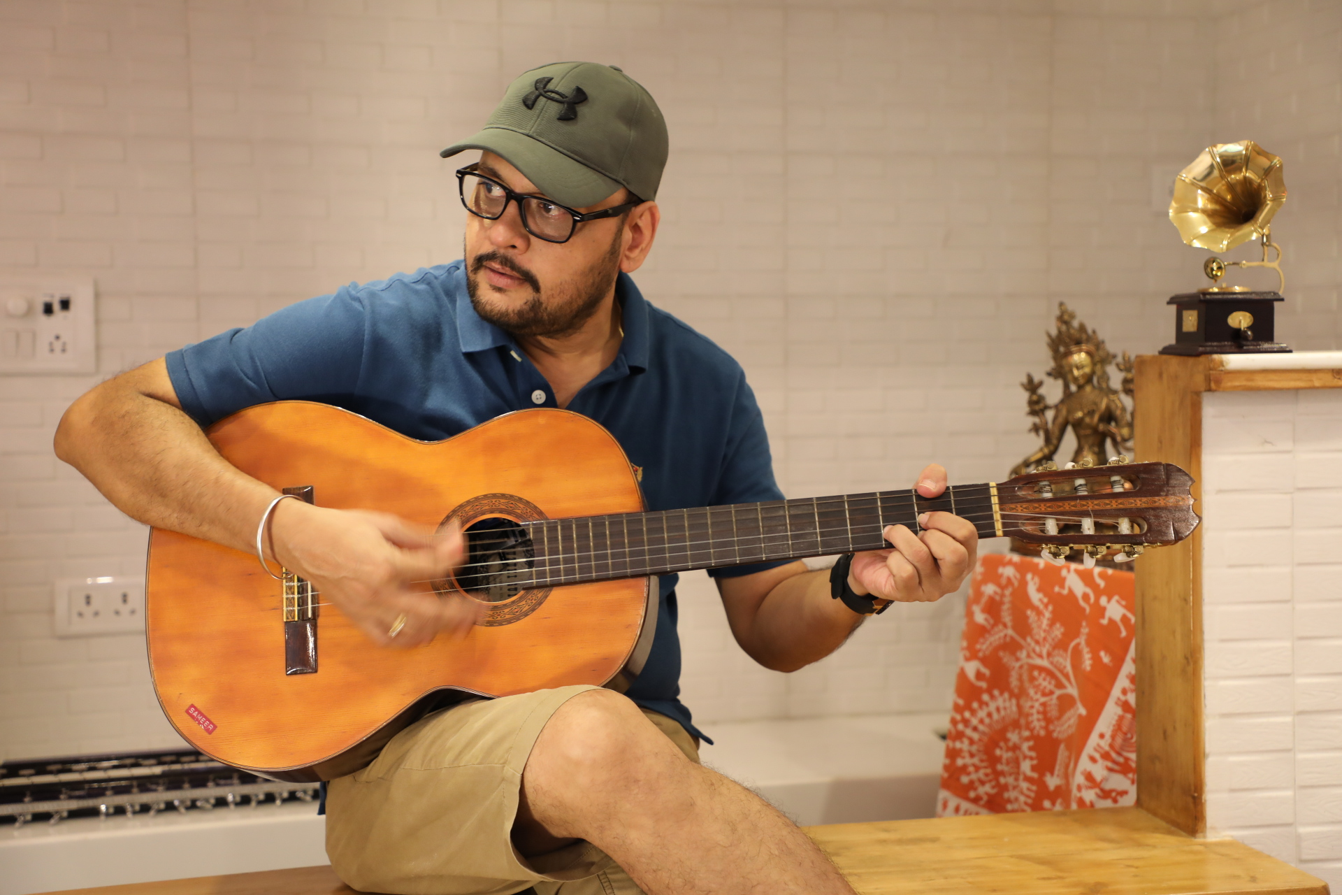 Sameer phatherpekar